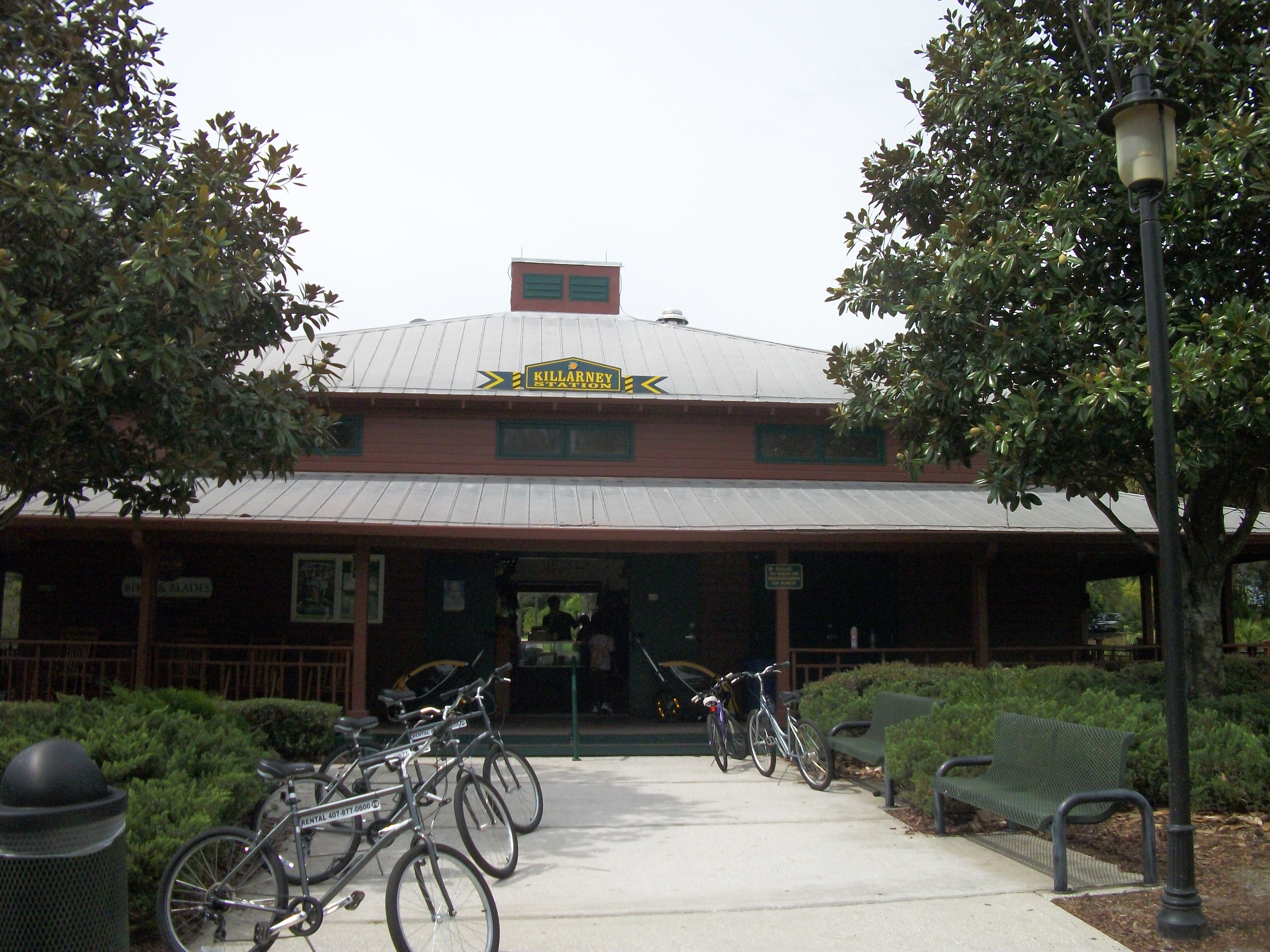 "Killarney Station" a bike rental shop along the West Orange Trail in Killarney, Florida. Not too many rail-trails in Florida are willing to provide such services to the people, so you've got to give them some credit.